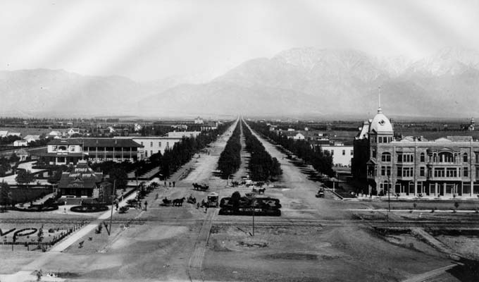 Ontario, 1885. Courtesy of the Los Angeles Public Library's Photo Collection[1].